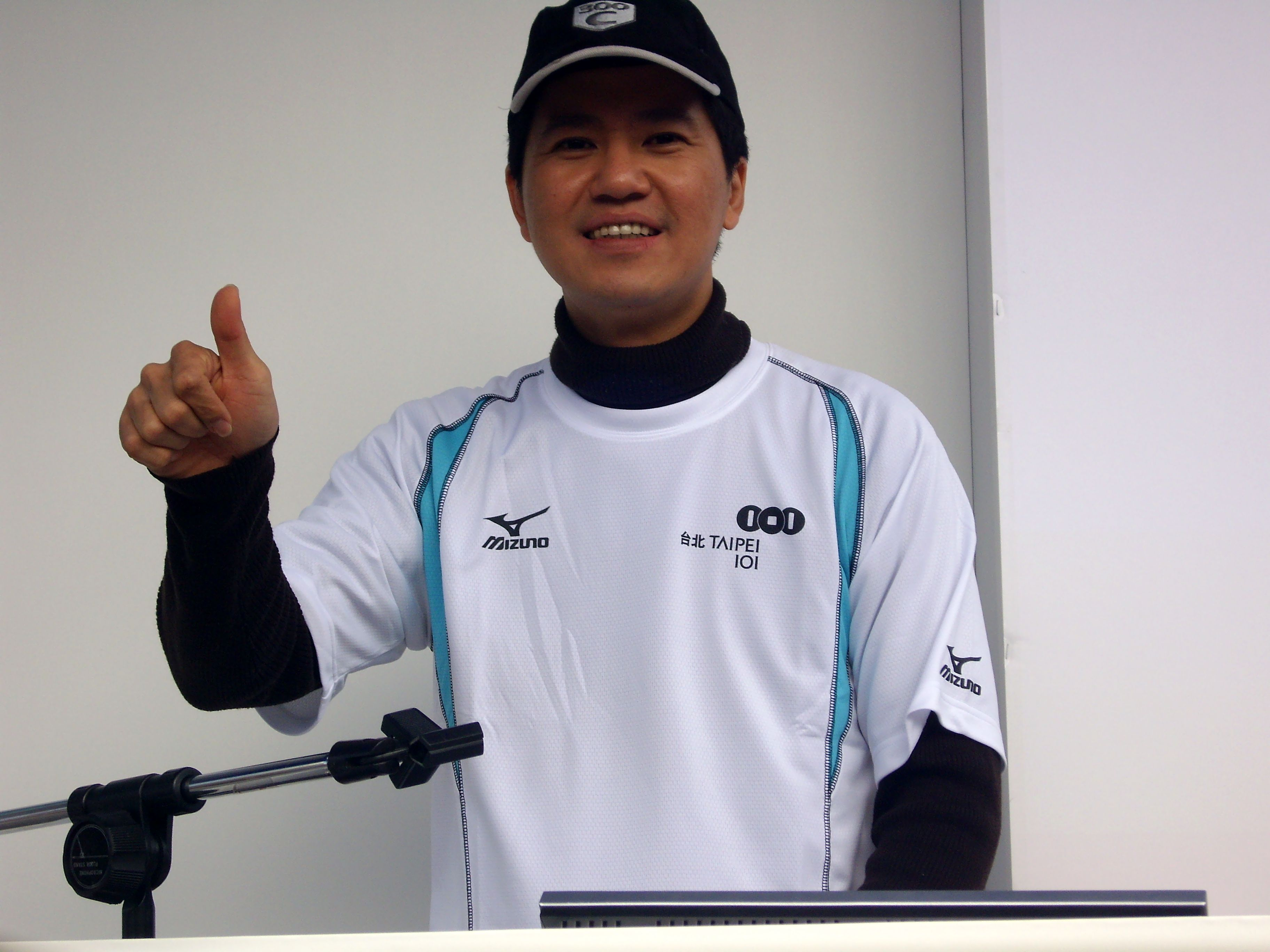 2007 Taipei 101 Run Up: Andy Lee, anchor of this race.